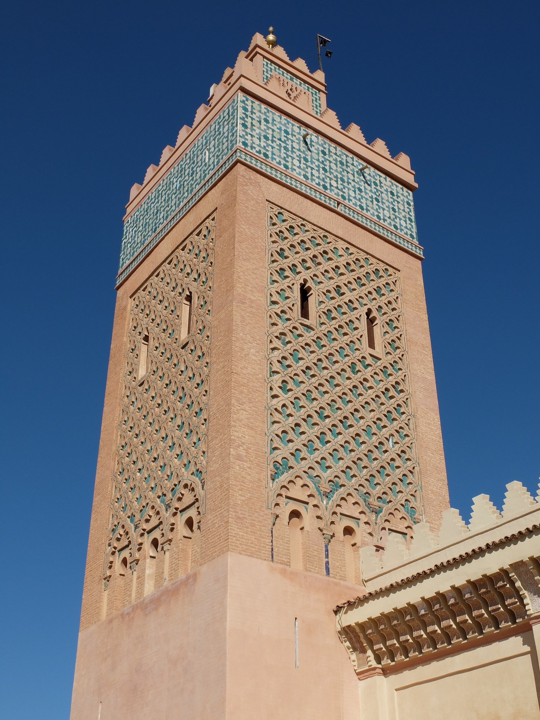 Closer view of the minaret of the Kasbah Mosque in Marrakech.